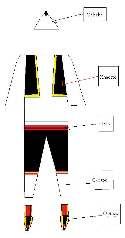 A traditional Albanian costume from the region of Labëria.